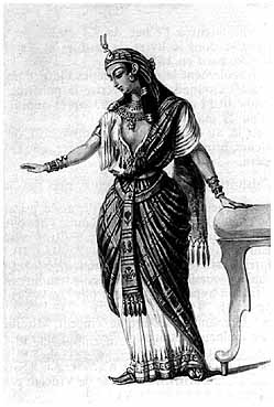 costume for Balkis, queen of Sheba in the opera by Charles Gounod